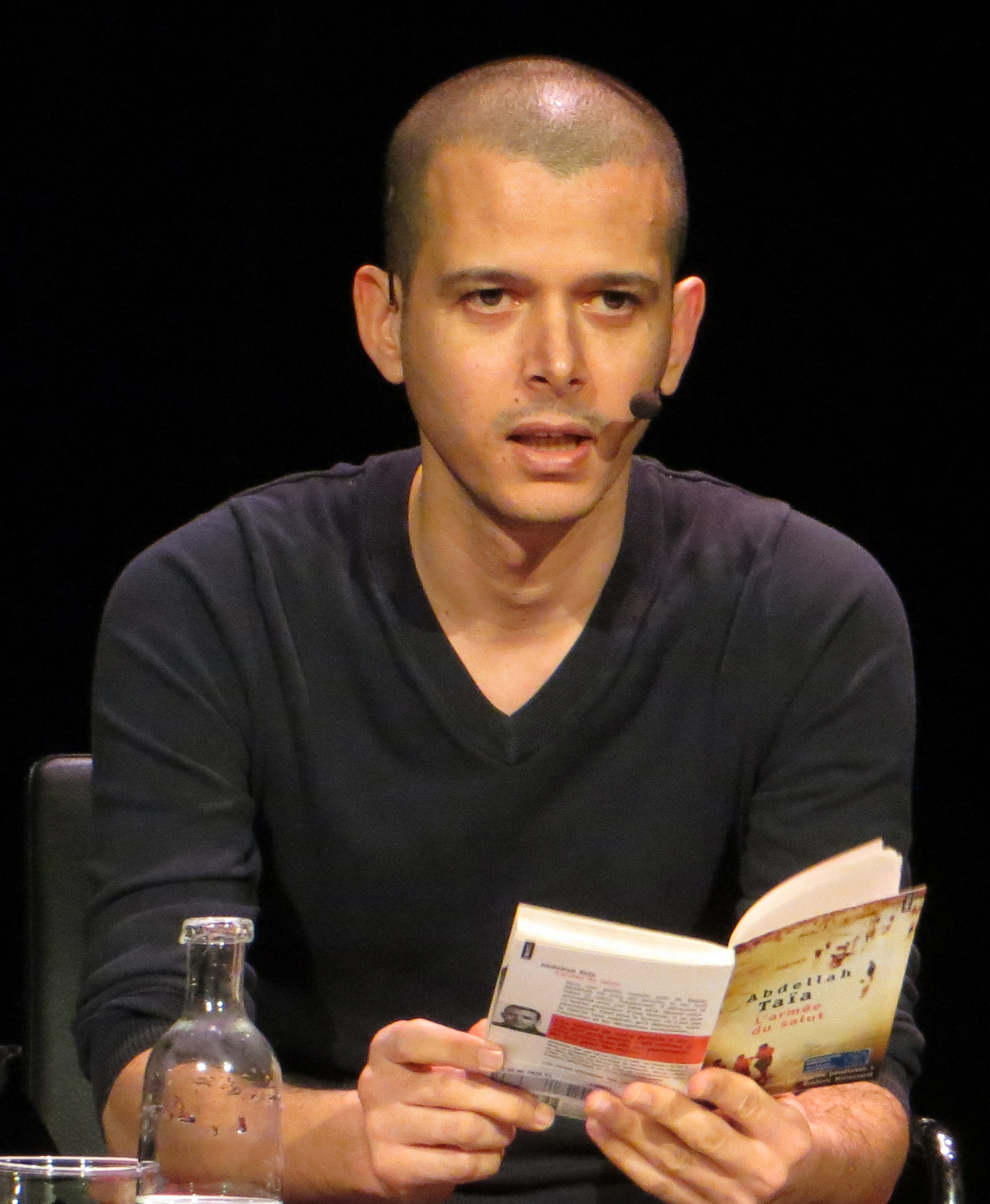 Abdellah Taïa reading from one of his own novels at the Internationell Författarscen (International Writers’ Stage) in Kulturhuset in Stockholm. Photographer: Håkan Lindquist